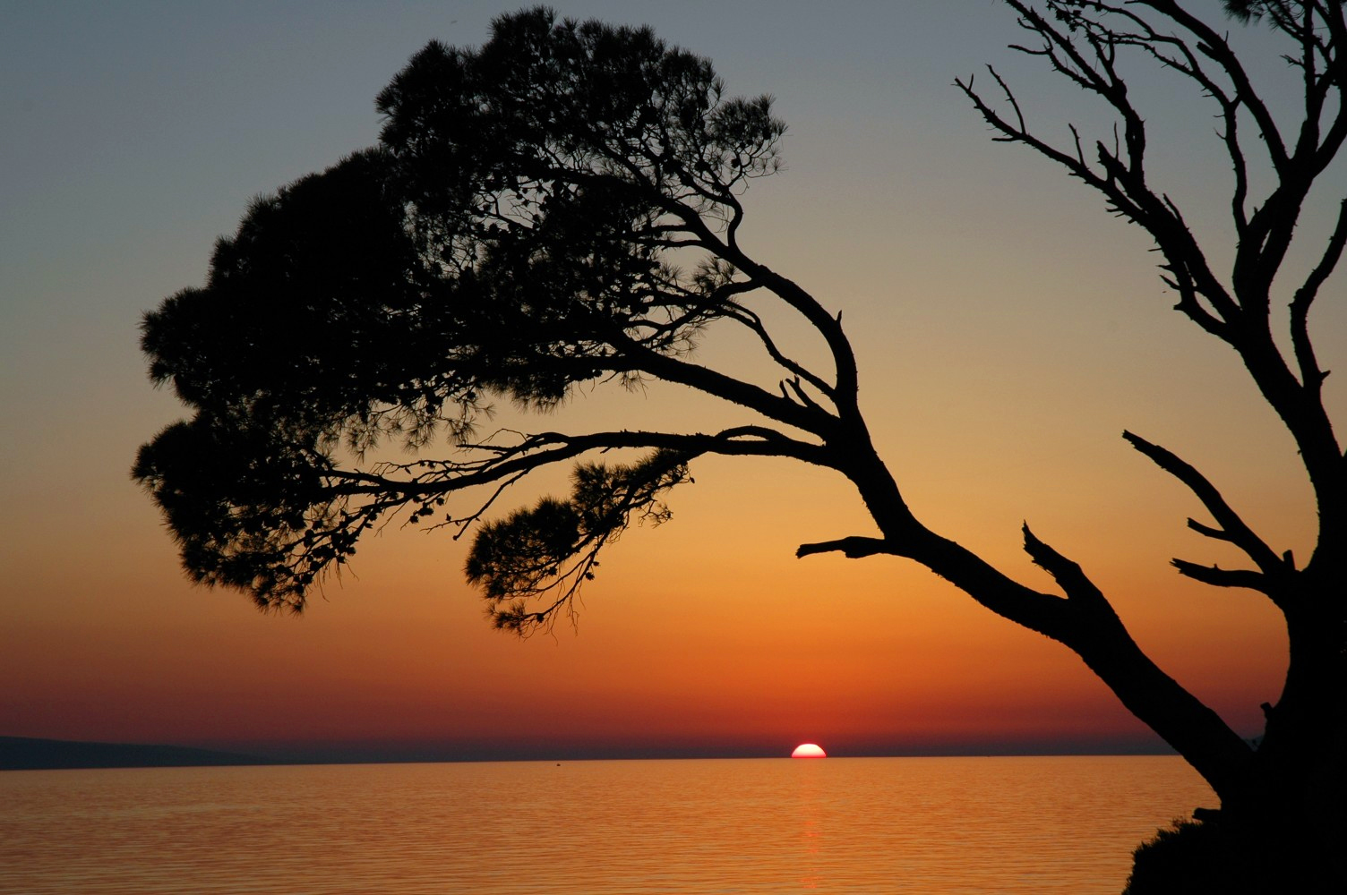 Sunset in Brela, Croatia